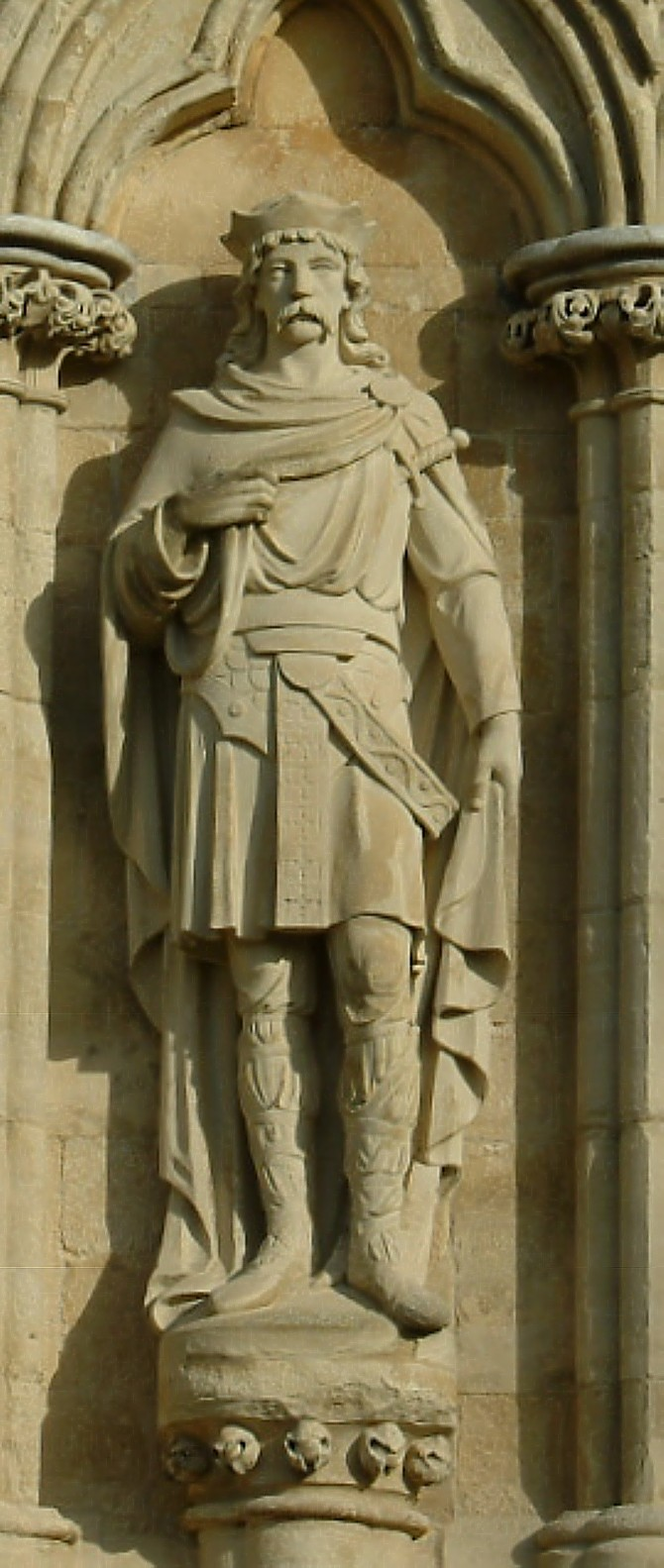 A statue of St. Edmund the Martyr on the West Front of Salisbury Cathedral, UK.